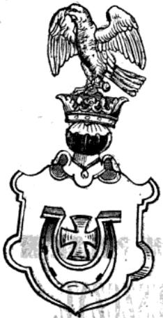 Jastrzębiec coat of arms by B. Paprocki, published in "Herby rycerstwa.."